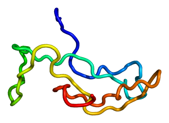 Structure of the CGA protein. Based on PyMOL rendering of PDB 1dz7.